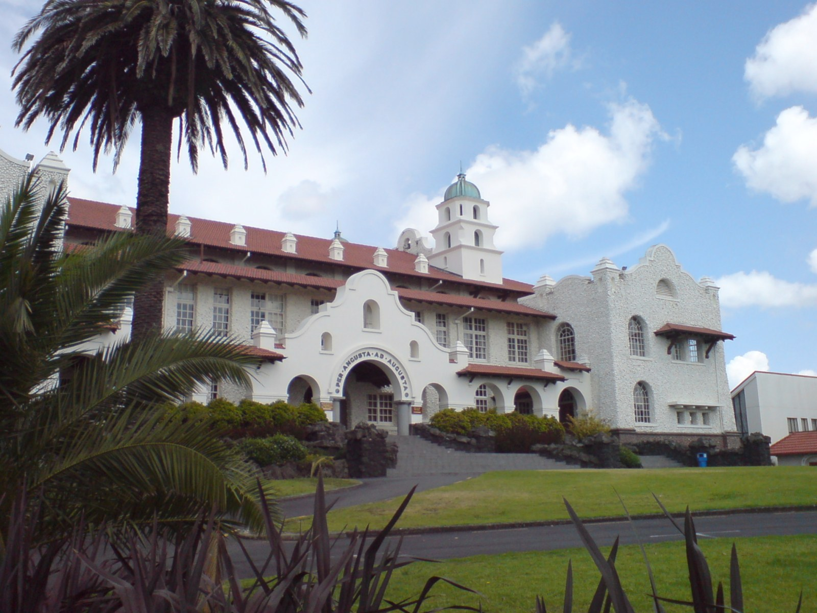 Auckland Grammar School, a boys secondary school in Auckland City, New Zealand. The main building was constructed in the 'Spanish Mission Revival' style. New Zealand Historic Places Trust Register number: 4471.